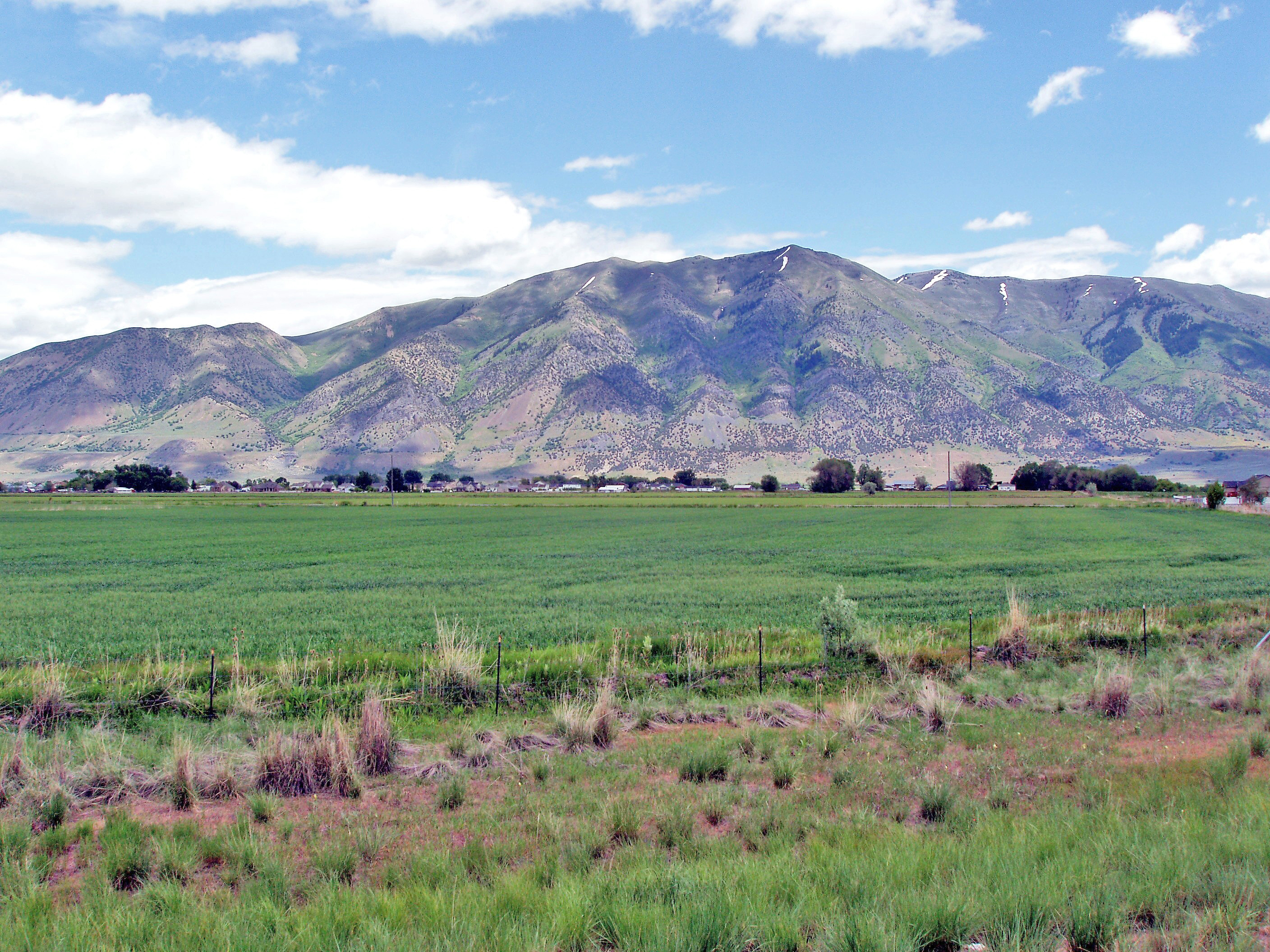 City of Elwood,Utah,with Mendon Peak in background as seen from I-15,June 8,2008